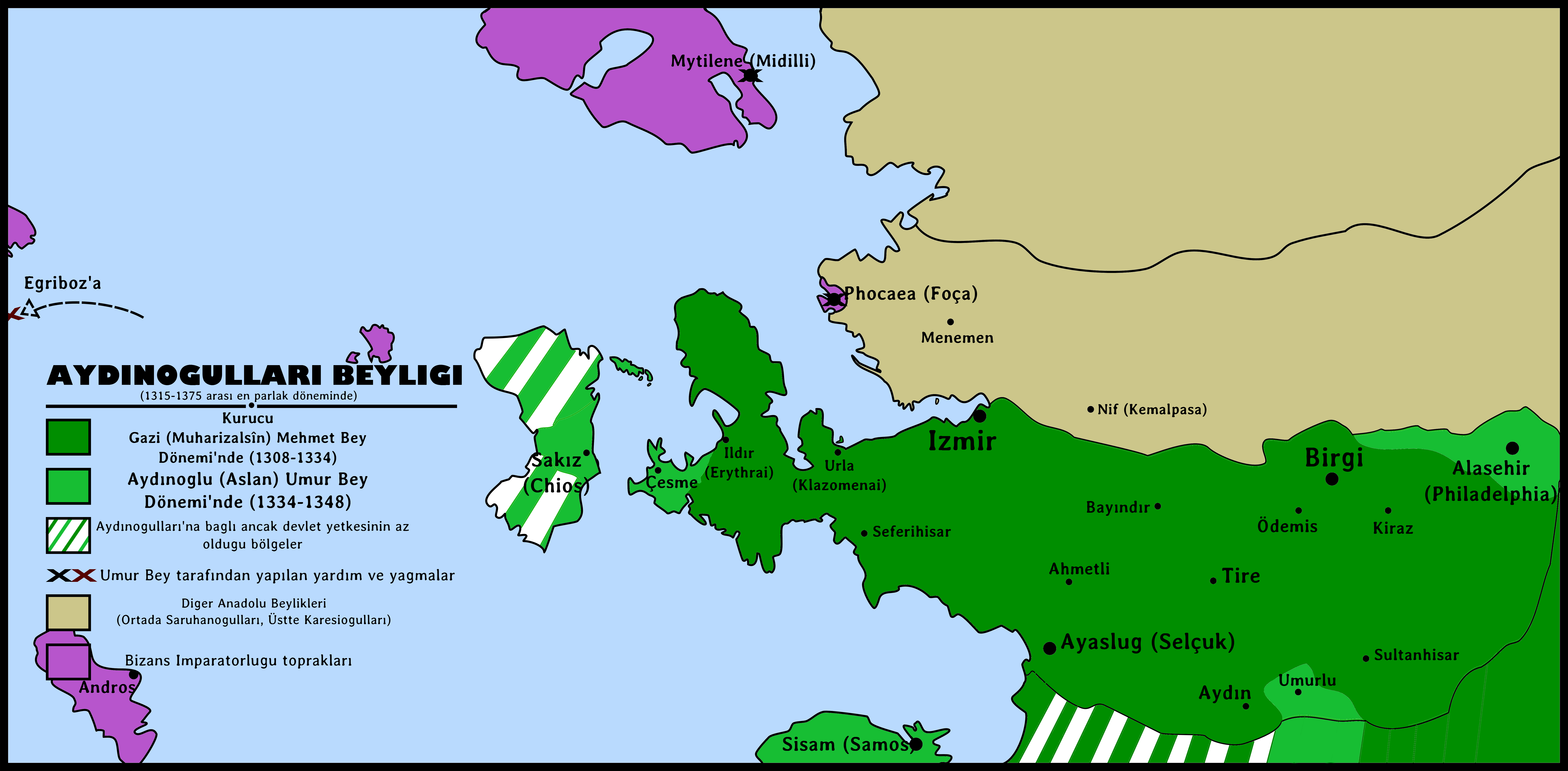 Beylik of Aydın(Aydınids)'s map during their peak years between 1315 and 1375. Beylik of Aydın Map highlighting: Borders under Gazi Mehmed Bey Borders after conquests under Umur Bey the Lion Byzantine Empire territories Other Western Anatolian BeyliksBlack "X" showing Umur Bey's aids Red "X" showing Umur Bey's raids